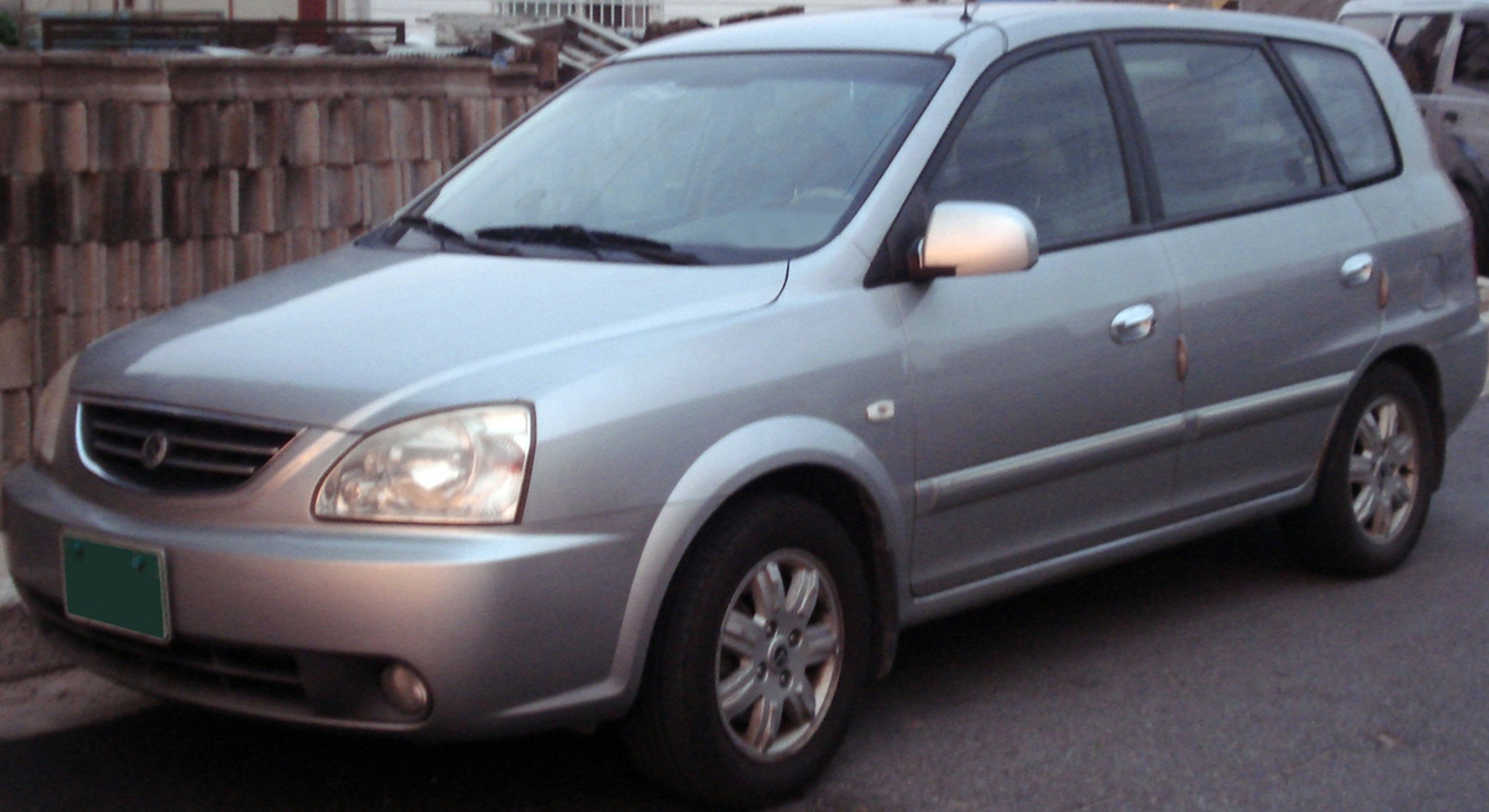 Kia Carens Ⅱ